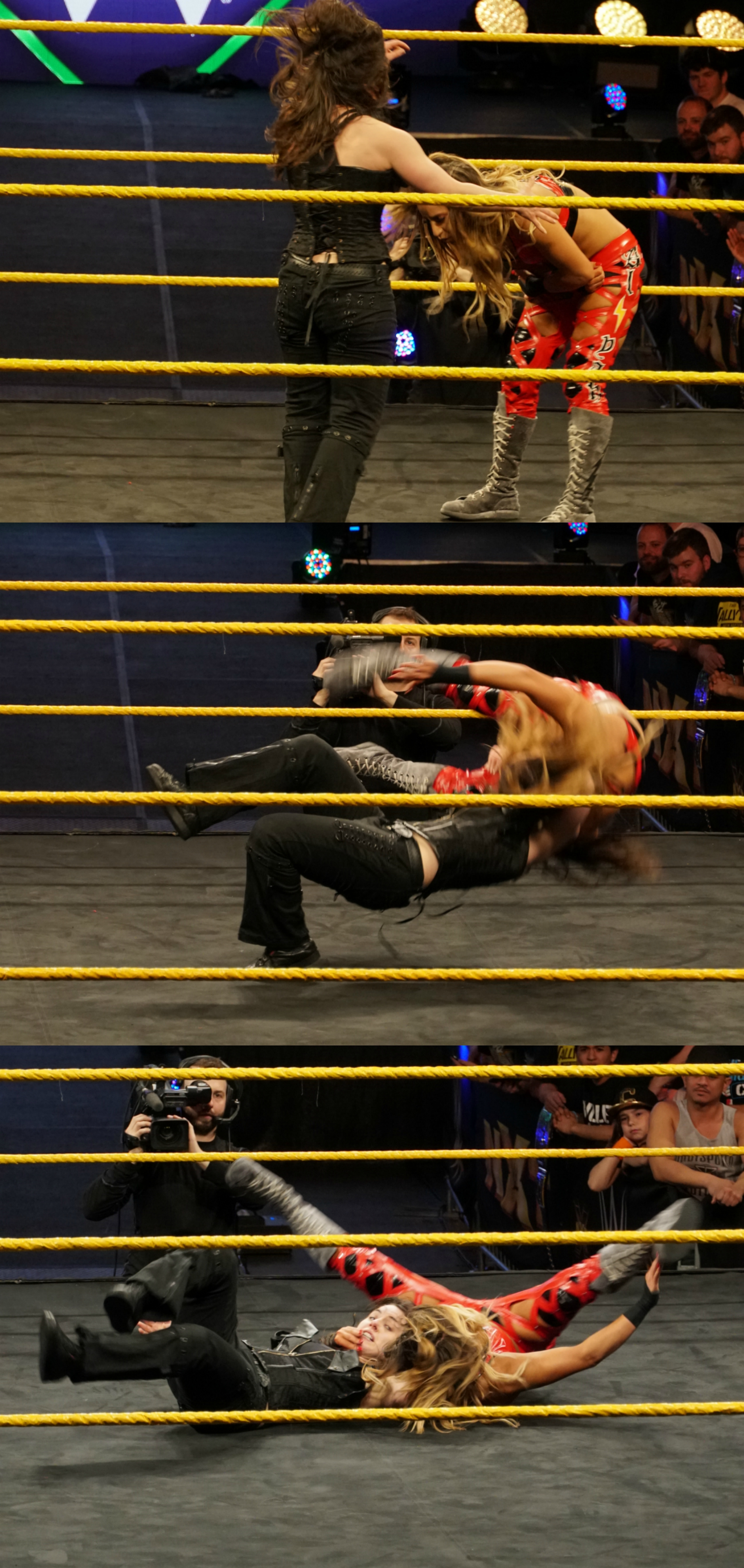 Nikki Cross performing her finisher named "The Purge" on Aliyah in April 2018